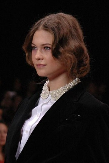 Behati Prinsloo at Paul Smith Women Fall 2007 fashion show, London Fashion Week.